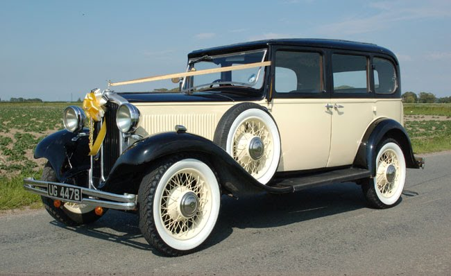 1933 Hillman Wizard 75 de luxe saloon "UG4478 1 of only 5 Wizards known to exist in the UK, 14 world wide. 1 of only 2 deluxe 75s remaining! Fantastic history and we now know every owner since build 23/5/1933. Only had 5 owners from new." source of info